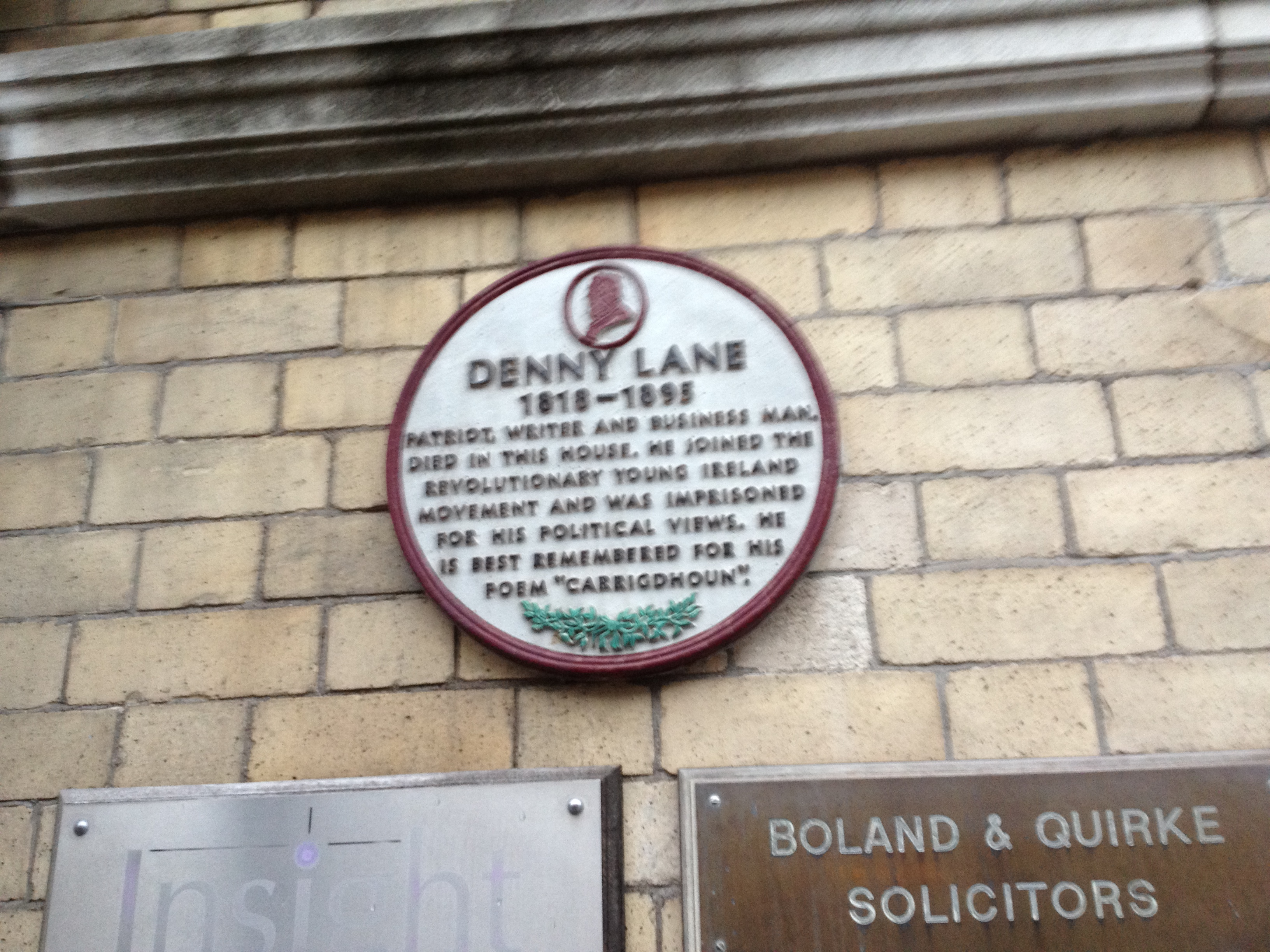 Blurry photo taken one-handed while rushing for bus with armful of holiday shopping. Plaque commemorates life/birth of Denny Lane (1818-1895) Uploaded in support of this discussion